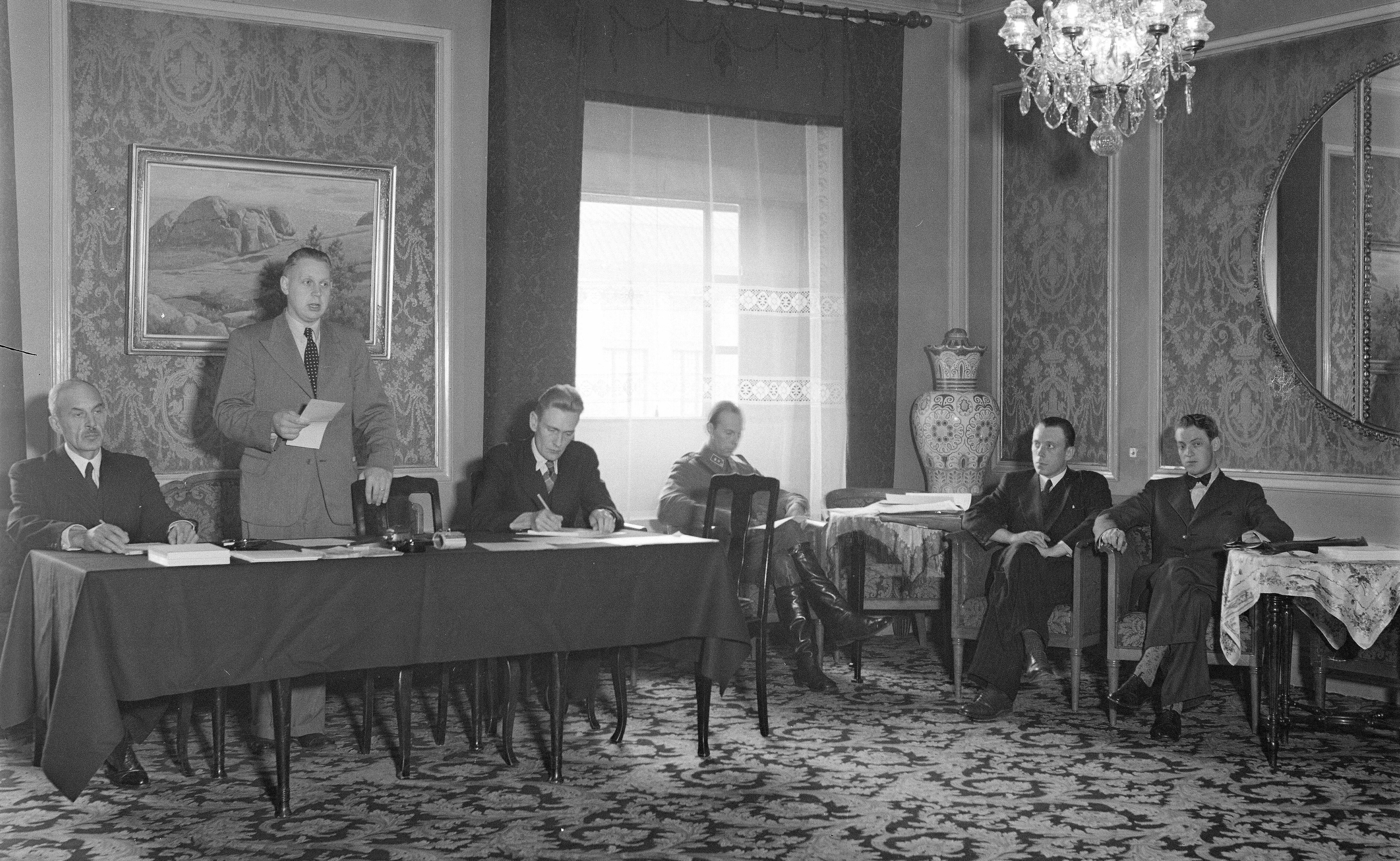 Photograph of the Finnish politician Sakari Tuomioja (1911–1964) speaking.